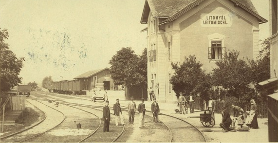 Historic postcard of Litomyšl train station